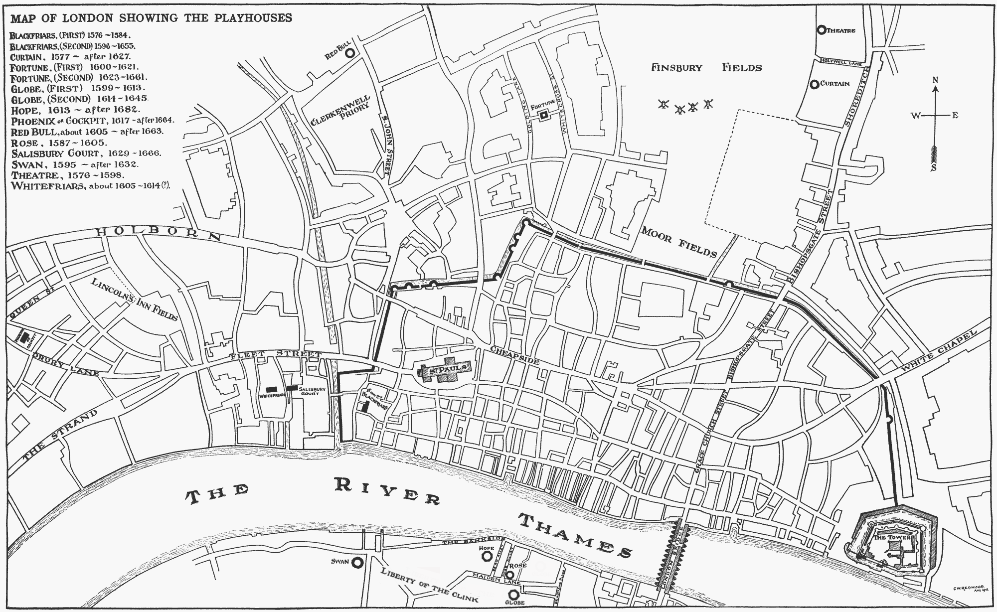 1917 map showing theatres of 16th and 17th century London, with one correction to reflect recent archaeology.